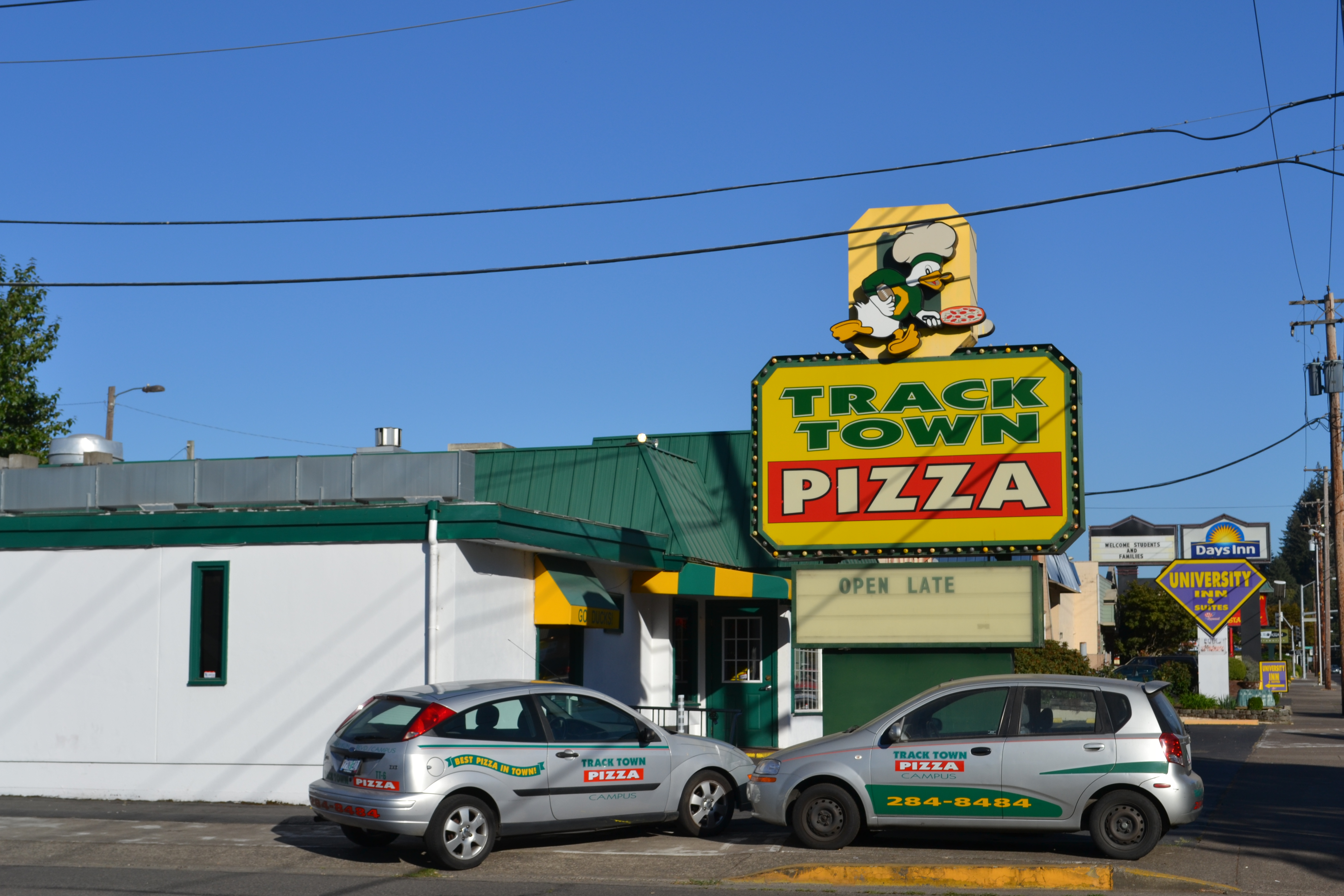 Pizza Delivery in a College Town (Eugene, OR): Open Late